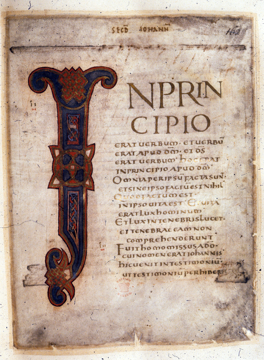 The beginning of the Gospel of St John in the "Coronation Gospels" (Cotton MS. Tiberius A. II, f. 162r). The manuscript was damaged by fire in 1731, the parchment leaves subsequently being mounted in paper frames. BL blog